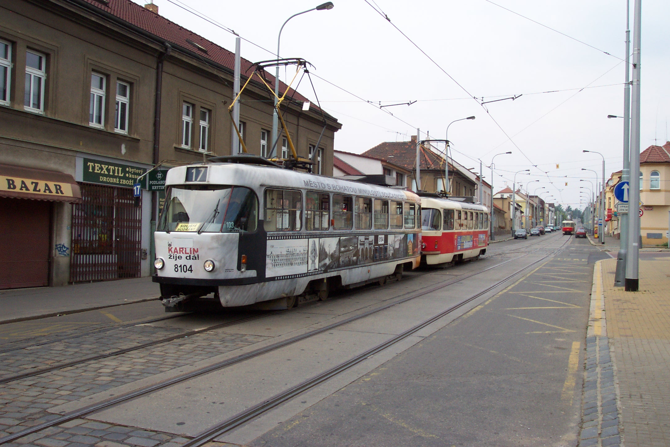 Ad tram in Prague, tram type is Tatra T3